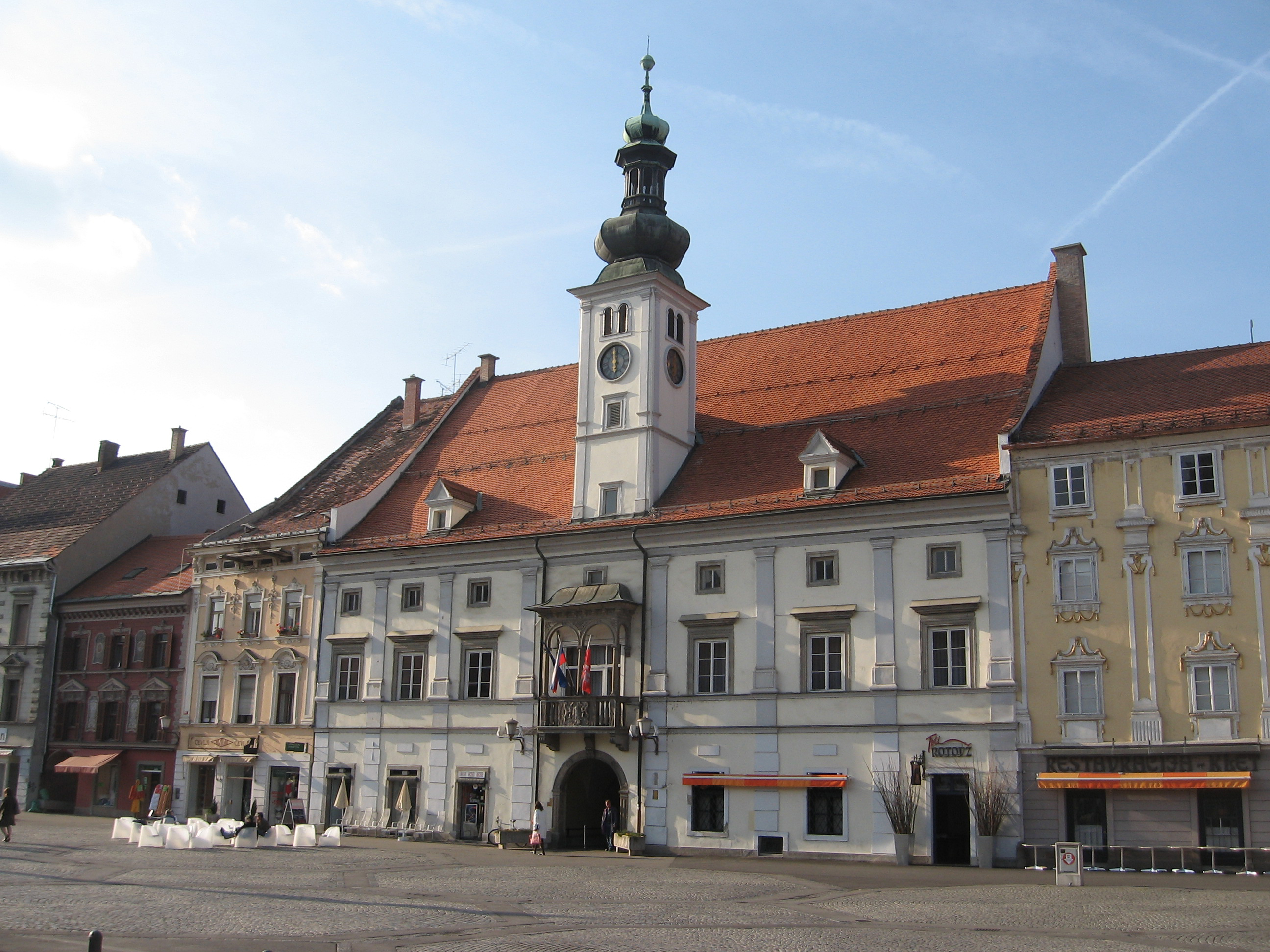 Maribor, town hall. Maribor Rotovž